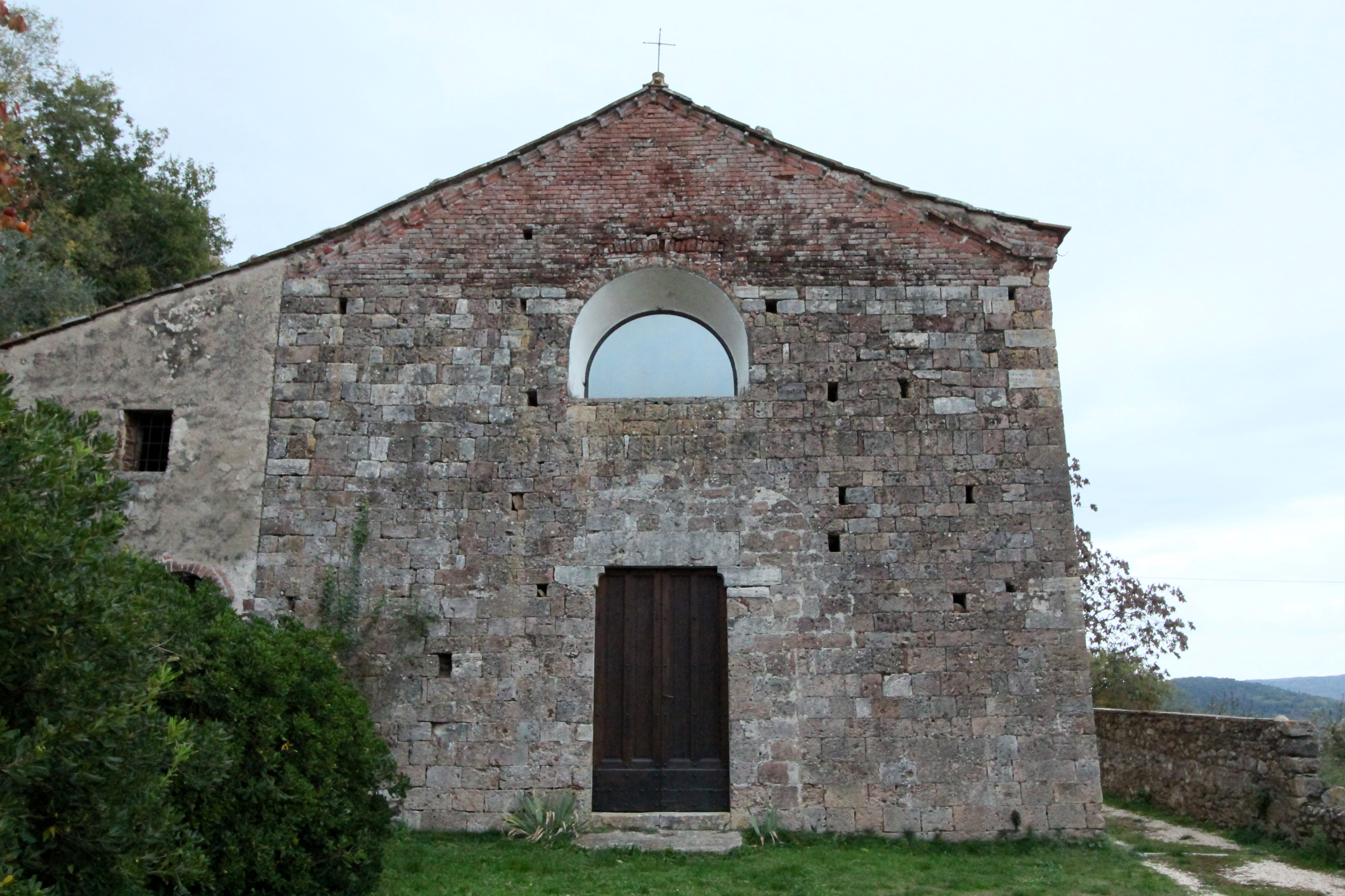 Church San Bartolomeo, Orgia, hamlet of Sovicille, Province of Siena, Tuscany, Italy